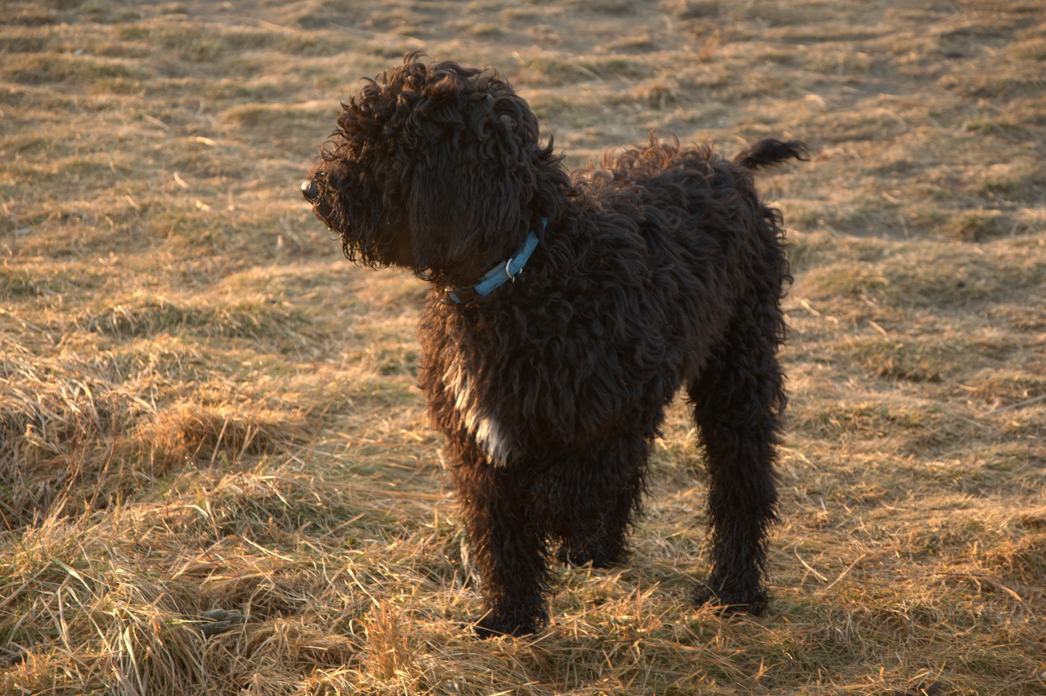 Six-month old Barbet female Georgia on my Mind from de la Serve de la Chapelle d'Alexandre kennel.